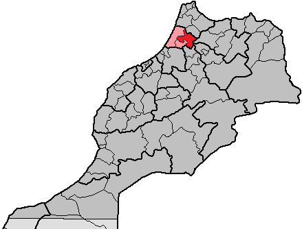 Location of the province Sidi Kacem within the region Gharb-Chrarda-Béni Hssen, Morocco. In total, Morocco has 16 regions, subdivided into 62 provinces and 13 prefectures.